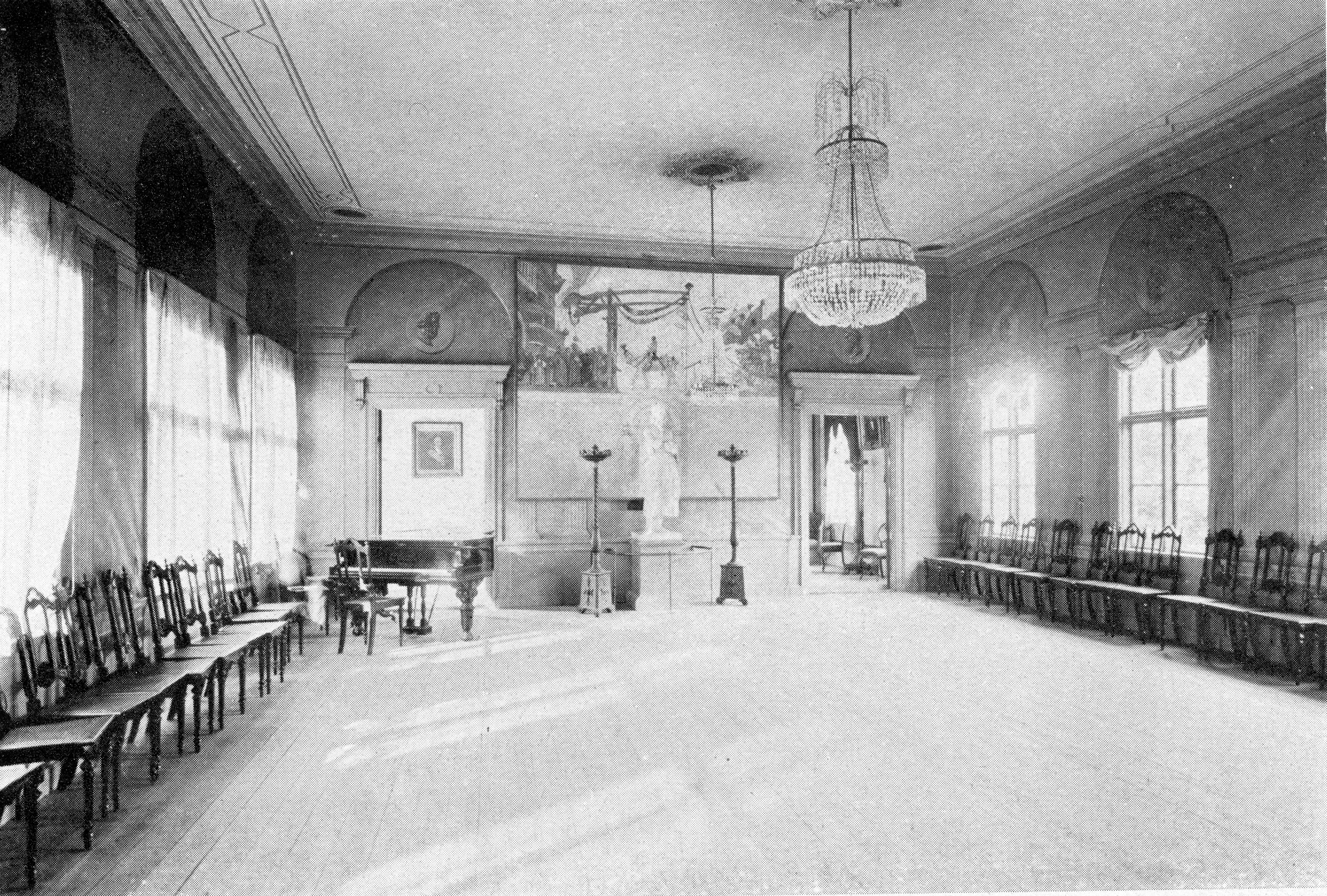 Västmanlands-Dala Nation, Uppsala. First nation house. Nation hall before 1914.